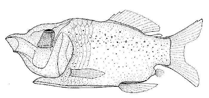 Opisthoproctus grimaldii (Mirrorbelly)